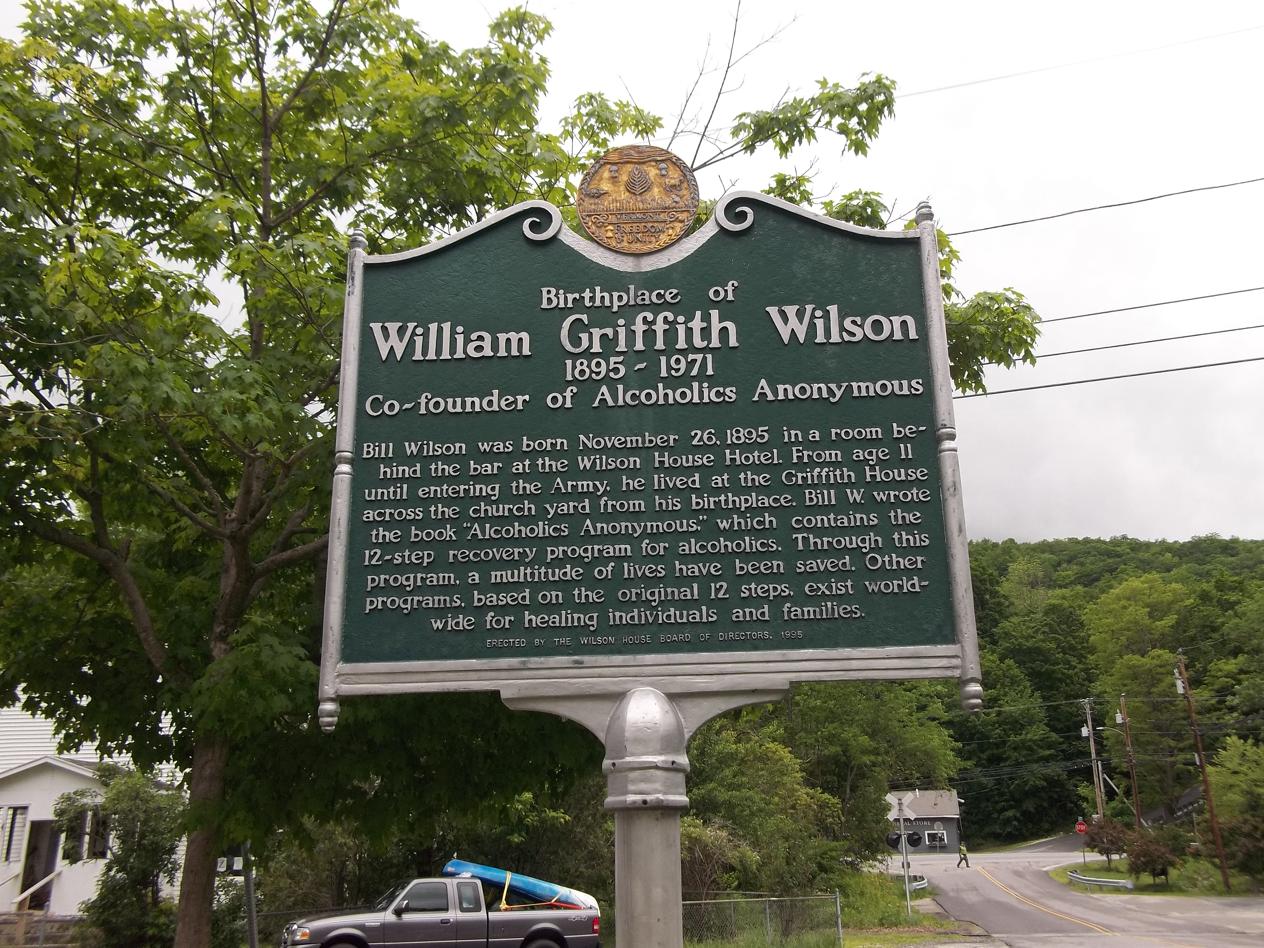 Historical marker placed outside hotel where Bill Wilson, co-founder of Alcoholics Anonymous, was born in East Dorset, Vermont.